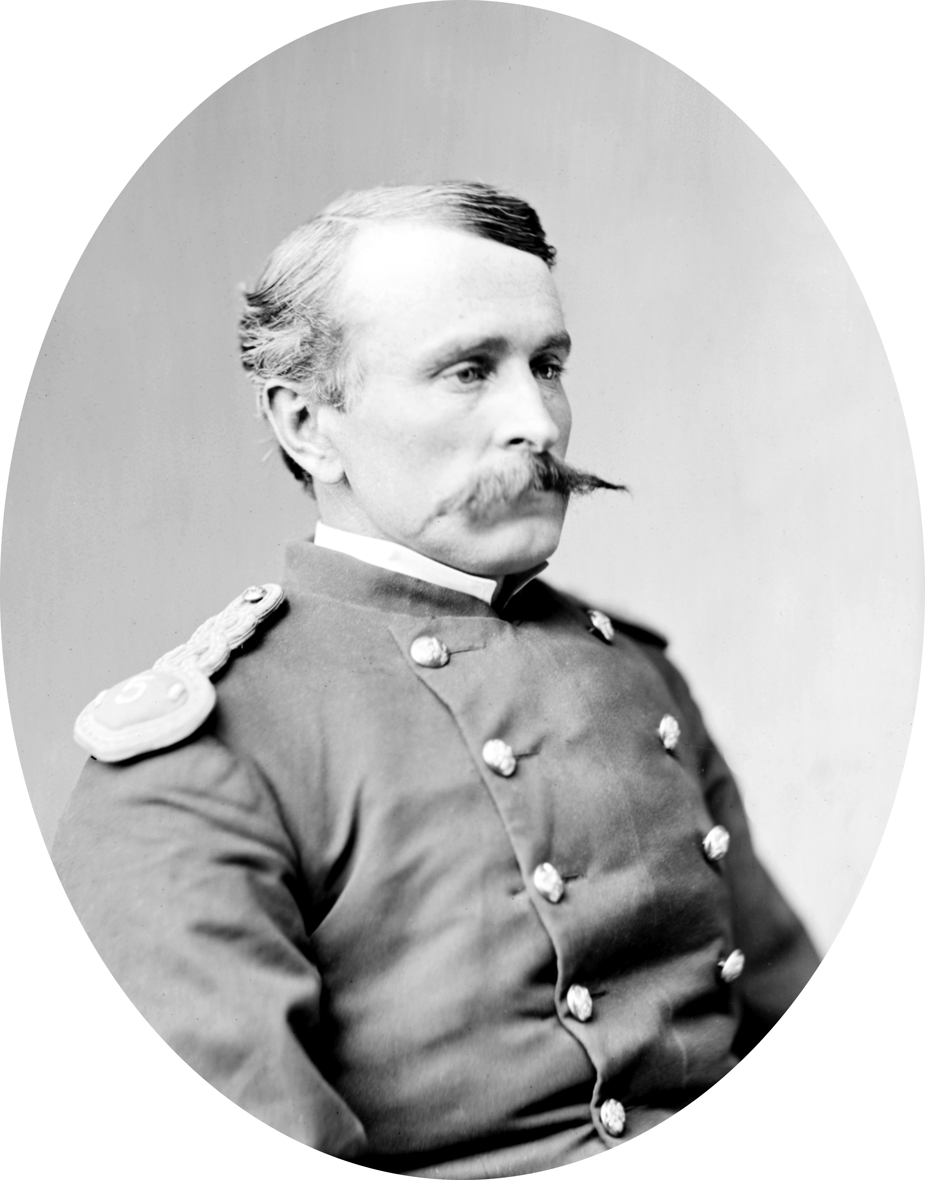 United States Army officer and two-time Medal of Honor recipient Frank D. Baldwin